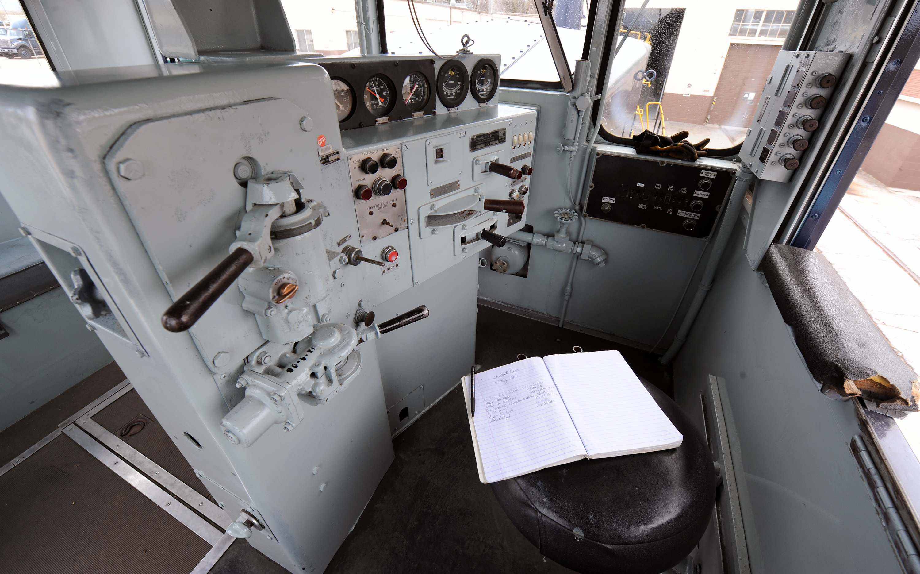 Interior of the cab of an SW8 locomotive. Original caption: The log book used to record all those who rode on EMD SW8 Diesel-Electric locomotive No. 2007 sits on the engineers seat after the last ride and entries were made, May 6, at Hill Air Force Base, Utah. Engines 2000 and 2007 will be moved to work the rails at Davis-Monthan Air Force Base, Arizona.